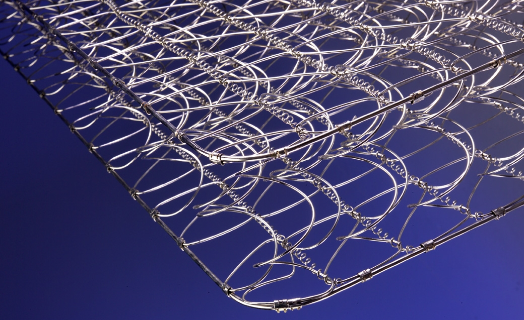 photo of a mattress coil